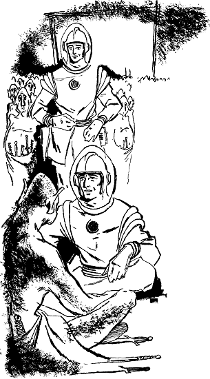 Frontispiece of Robert Sheckley's 1952 short story "Warrior Race".